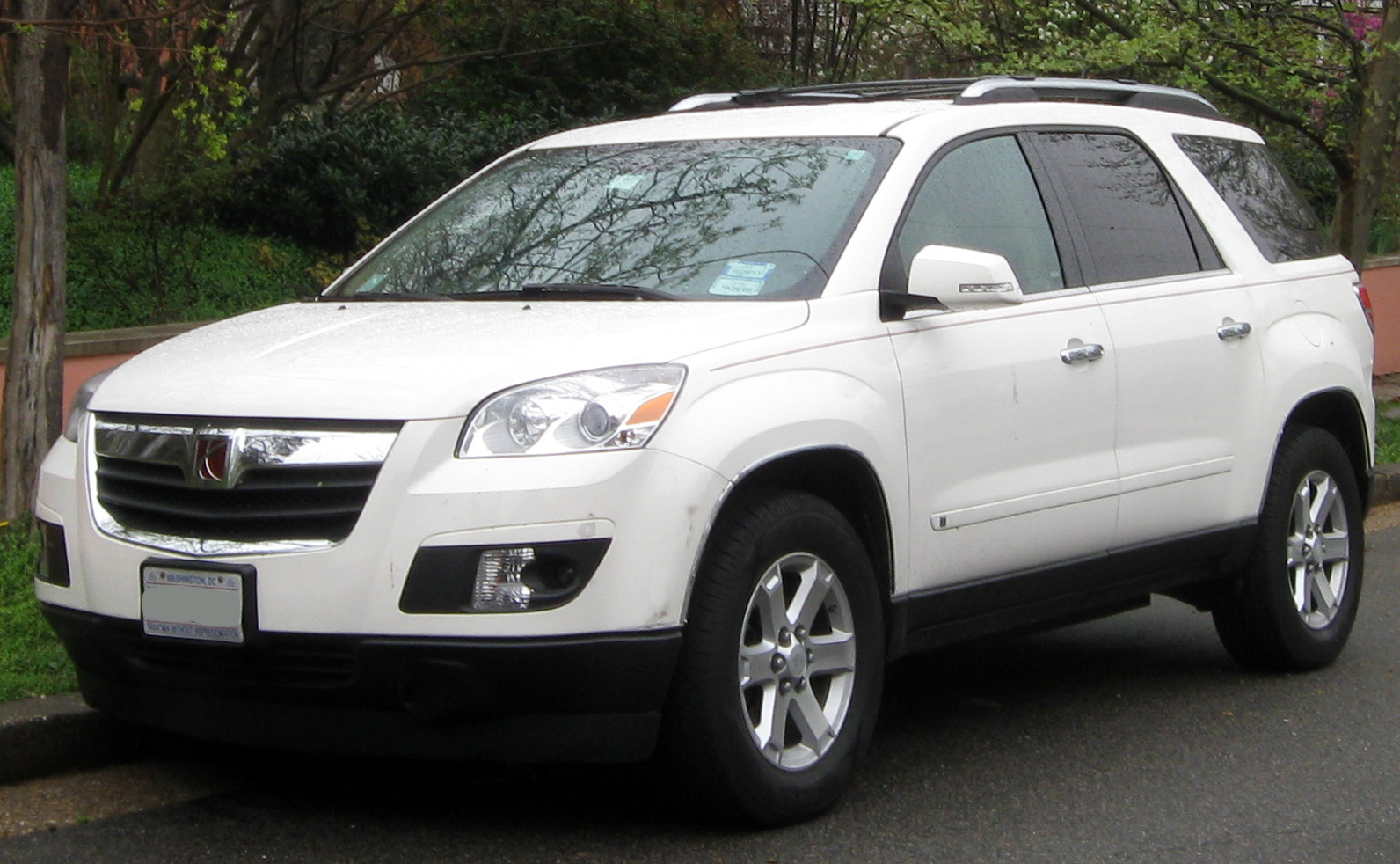 Saturn Outlook photographed in Washington, D.C., USA.